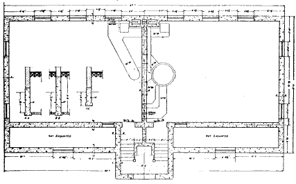 Michigan Rural School Plan No 9, Second floor, 1915-1916